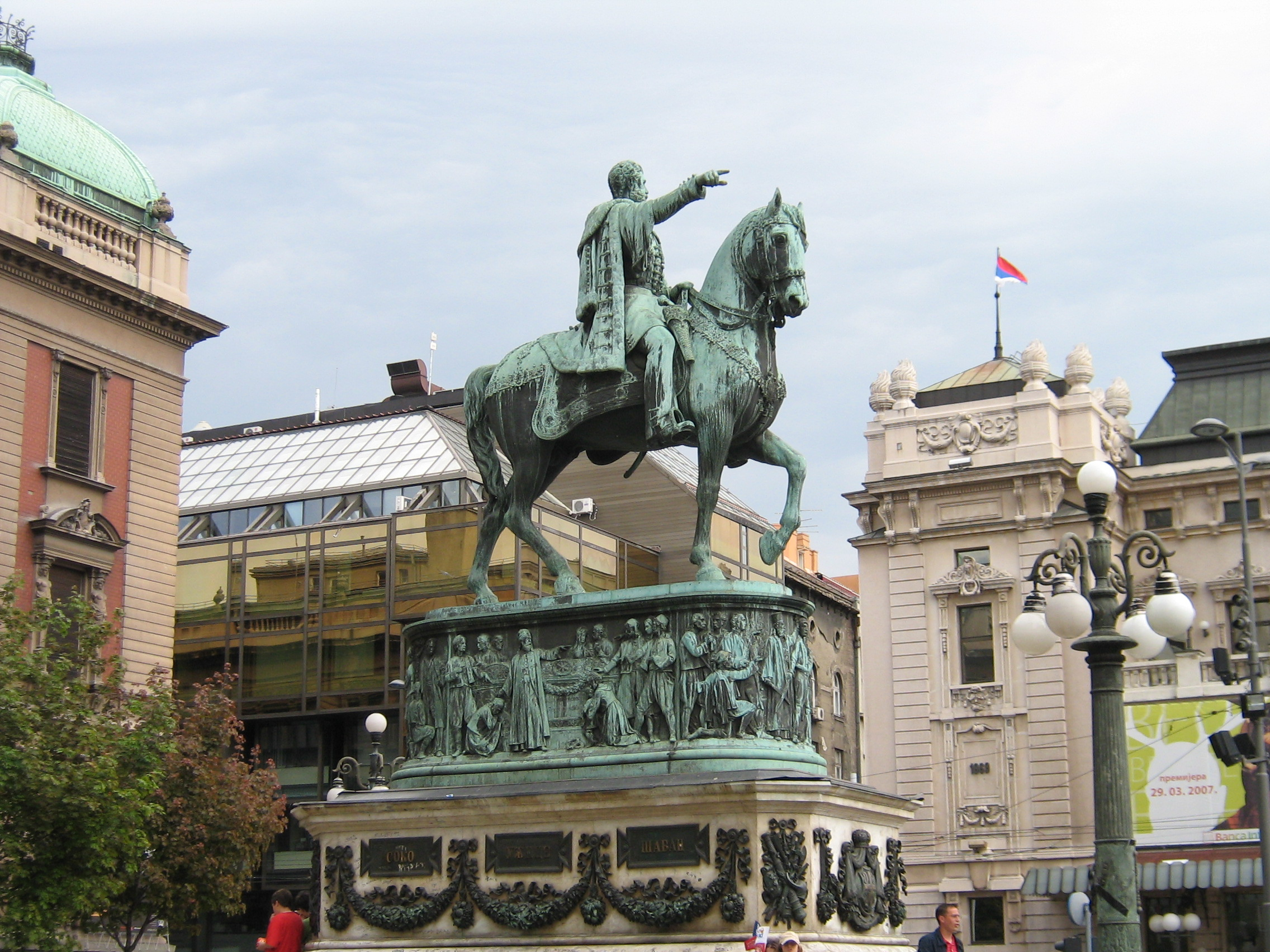 Monument (equestrian statue) to Prince Mihailo at the plateau in front of the National Theater on Republic Square in Belgrade, Serbia.